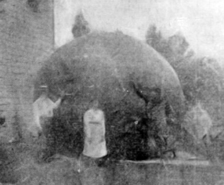 Oxygen-hydrogen balloon made by Carl Myers at his Frankfort (NY) "balloon farm" in 1891.